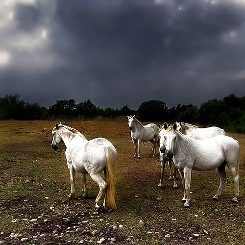 Camargue Horses in France